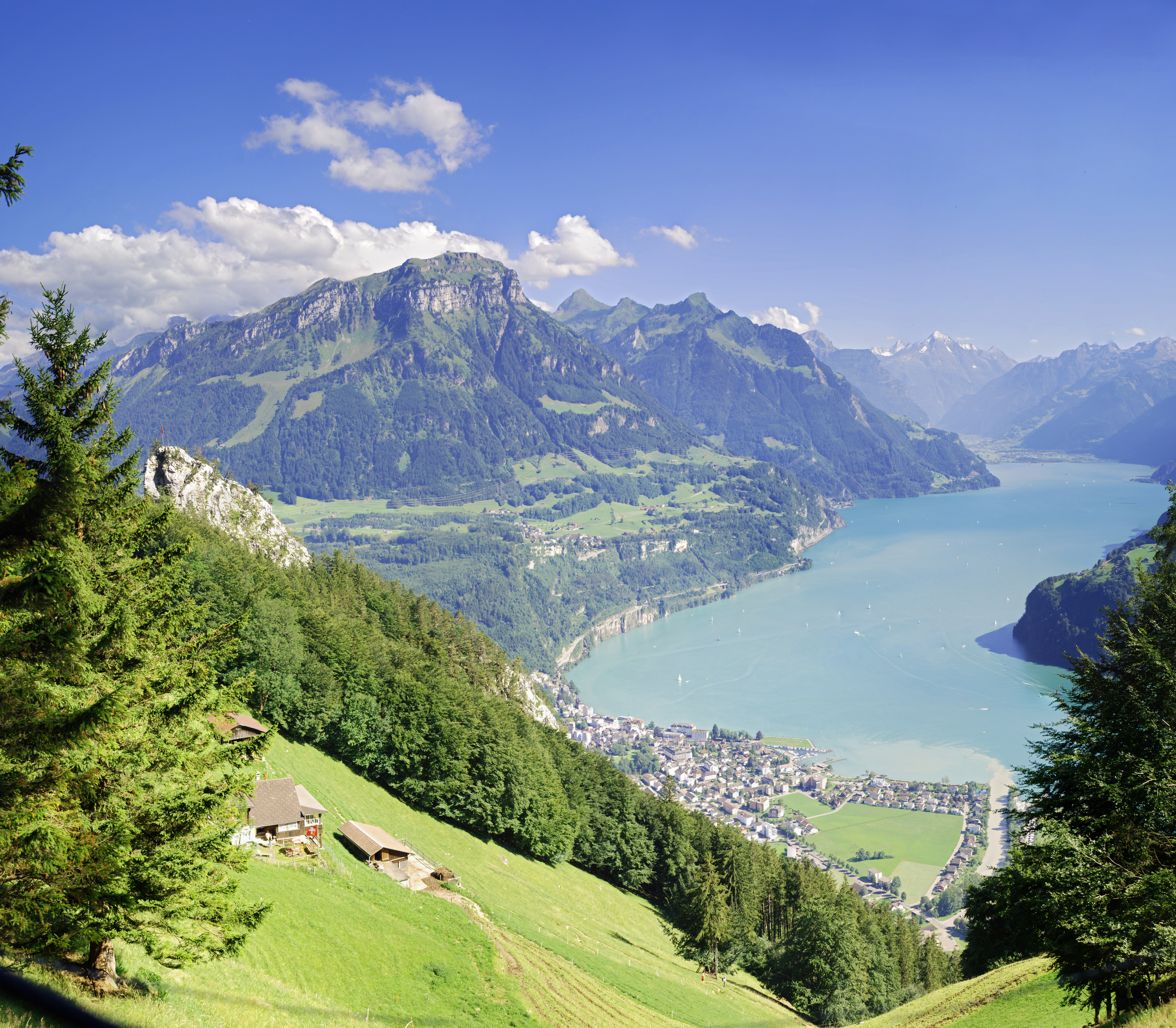 Panorama of Brunnen, SZ, Switzerland